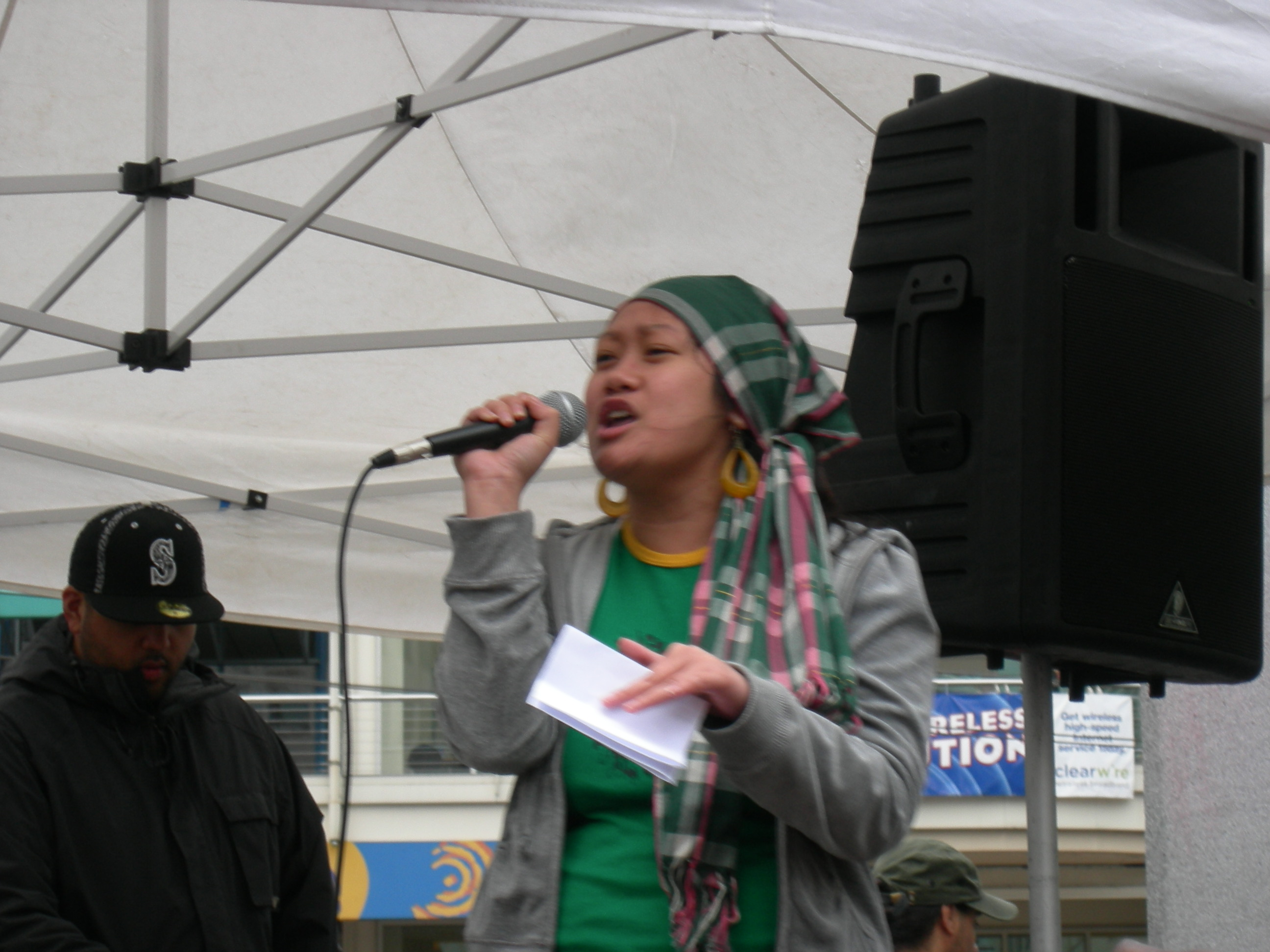 Performance poet Rogue Pinay performs at anti-war demonstration in Westlake Park Seattle, Washington, 19 March 2007.